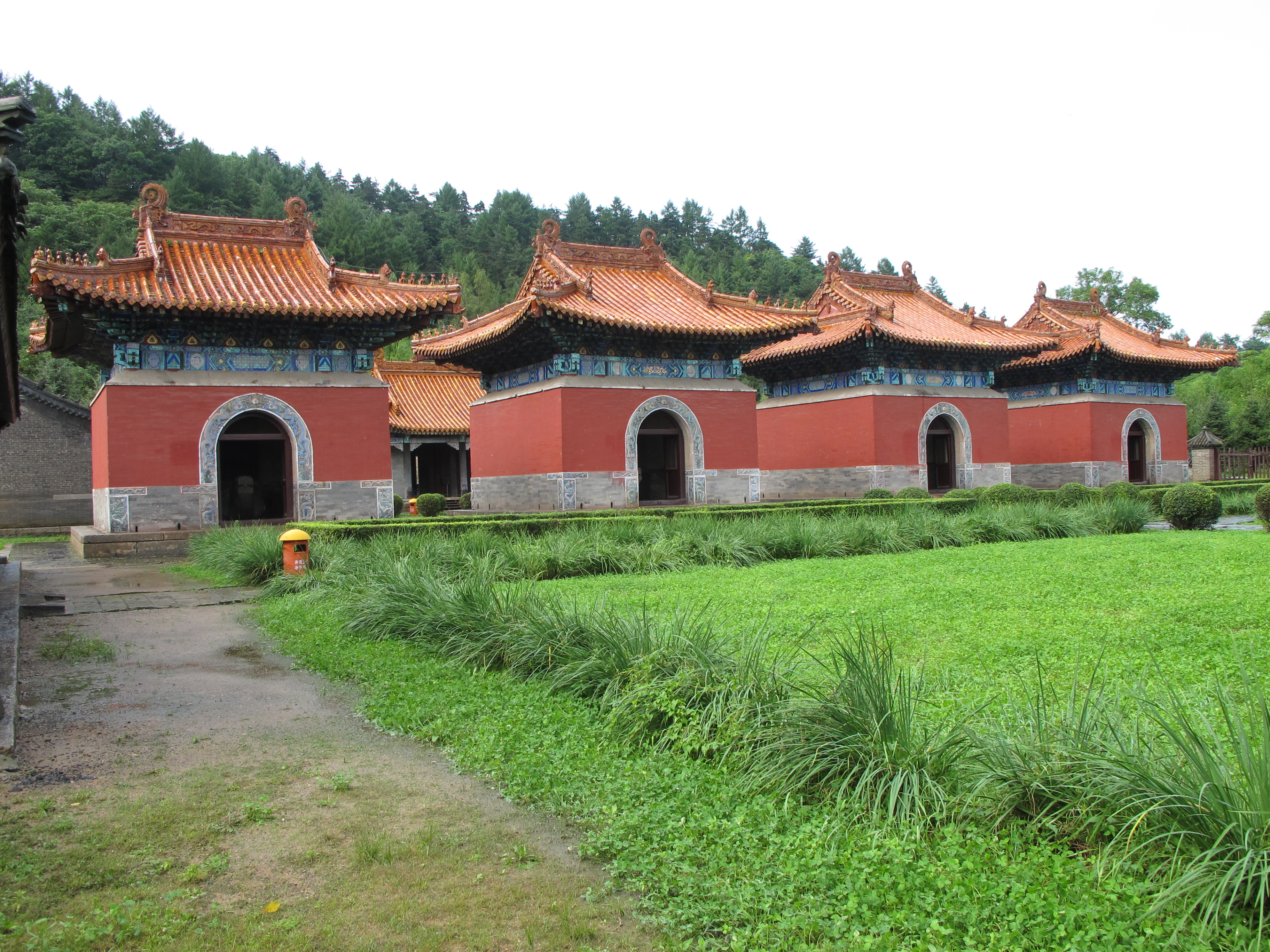 The Yongling Tombs of the Qing Dynasty. Stele pavilions with tortoise-borne stelae inside.